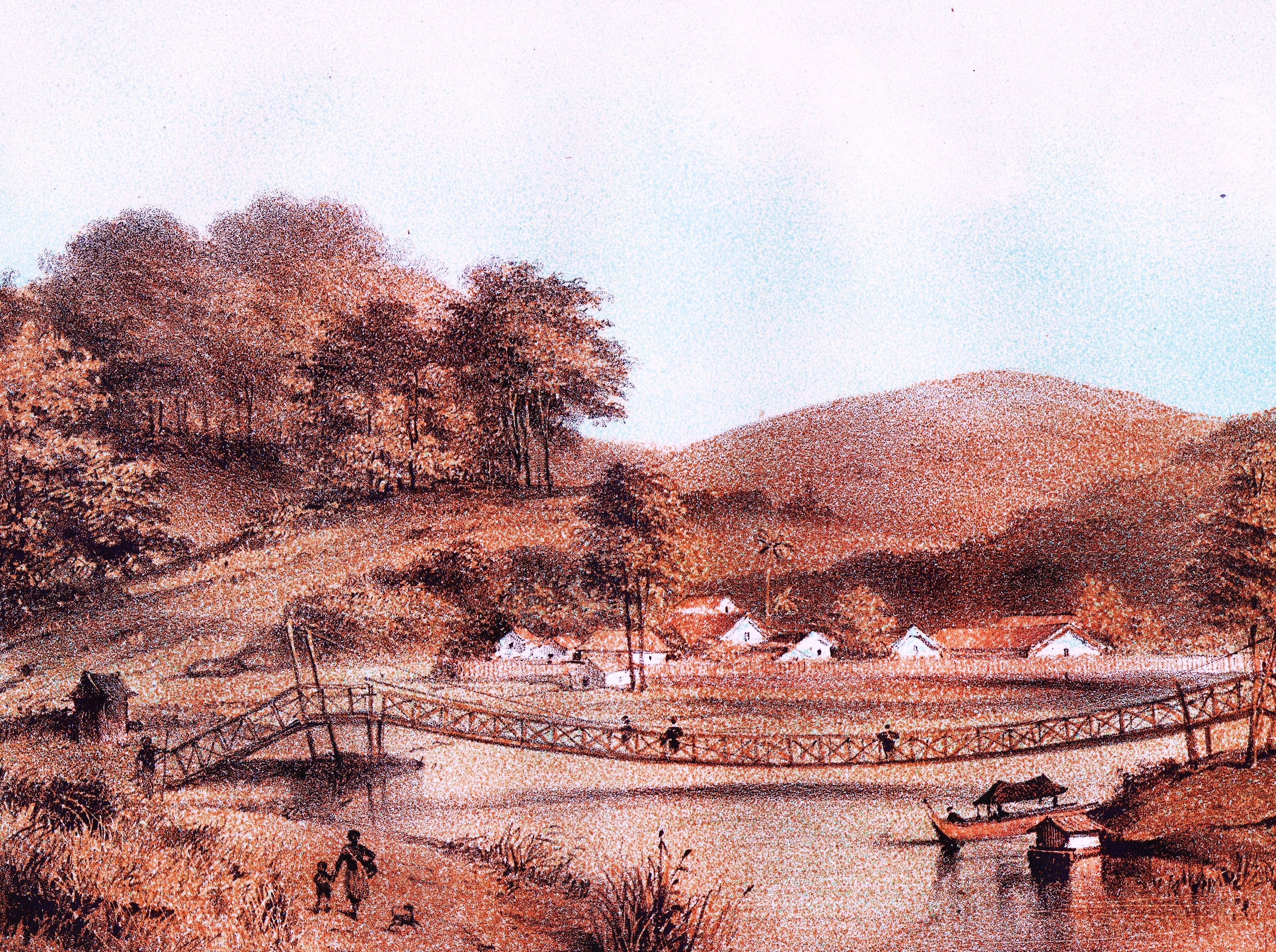 Pengaron